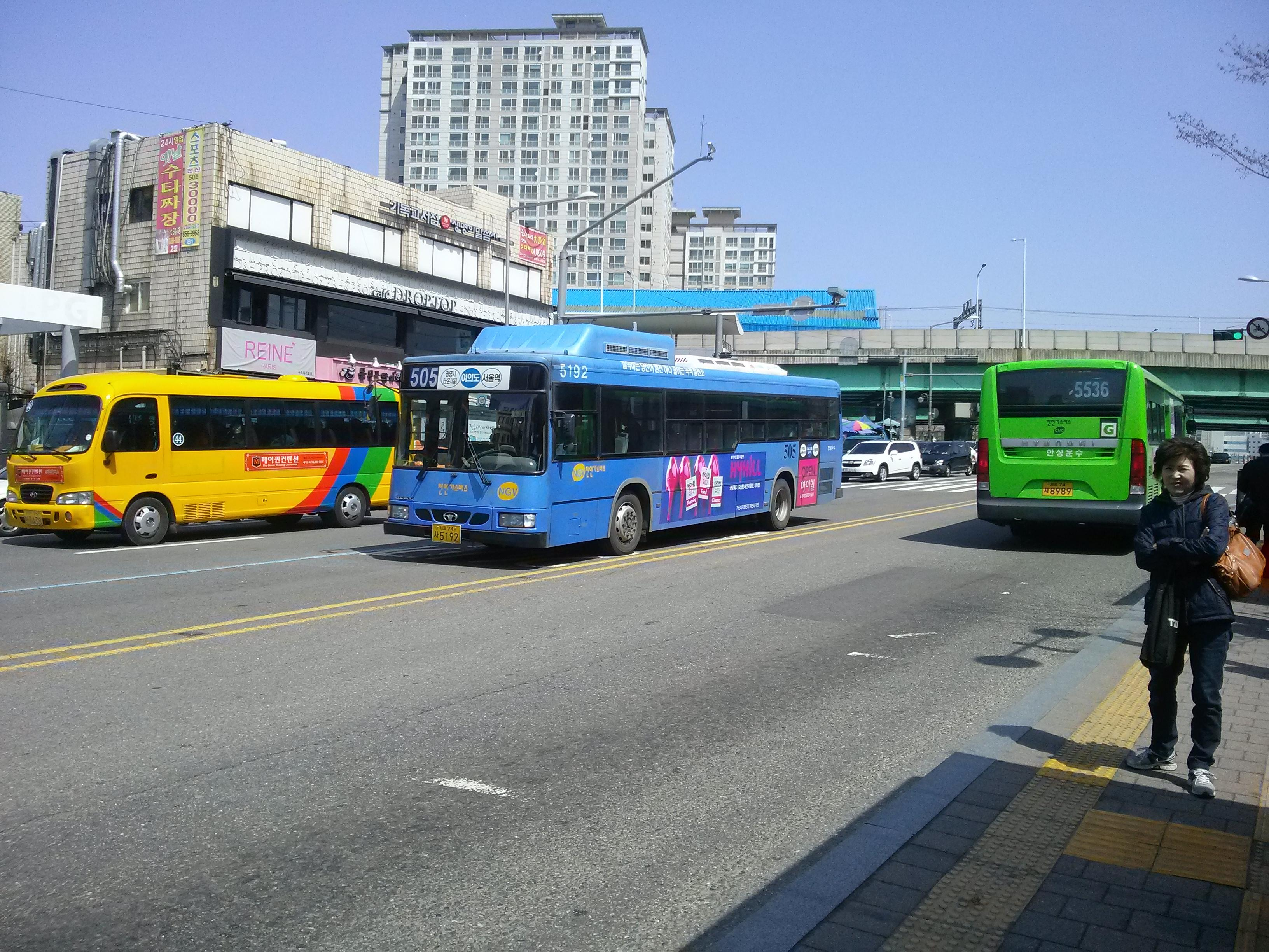 4.14.2013 Guro Digital complex st Bumil 505 Daewoo BS110CN